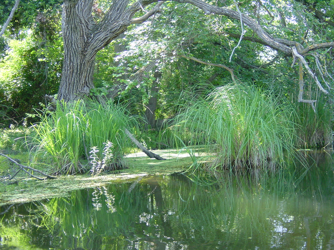 Pic of a mangrove in Galeria (Corsica - France)